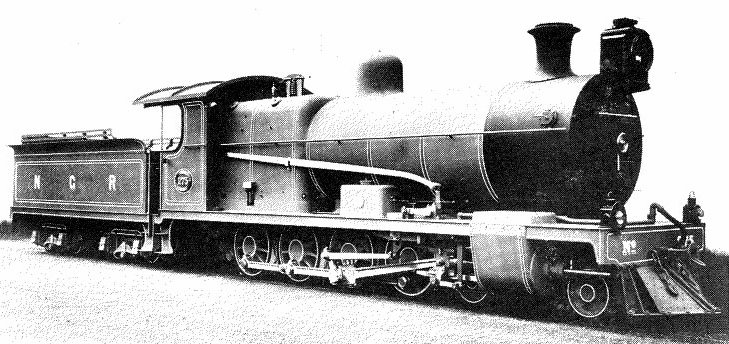 SAR Class 1 (ex NGR No. 275), Builders photo